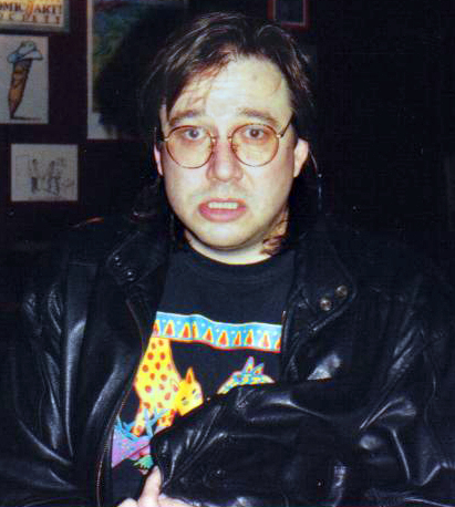 Comedian Bill Hicks at the Laff Stop in Austin, Texas.